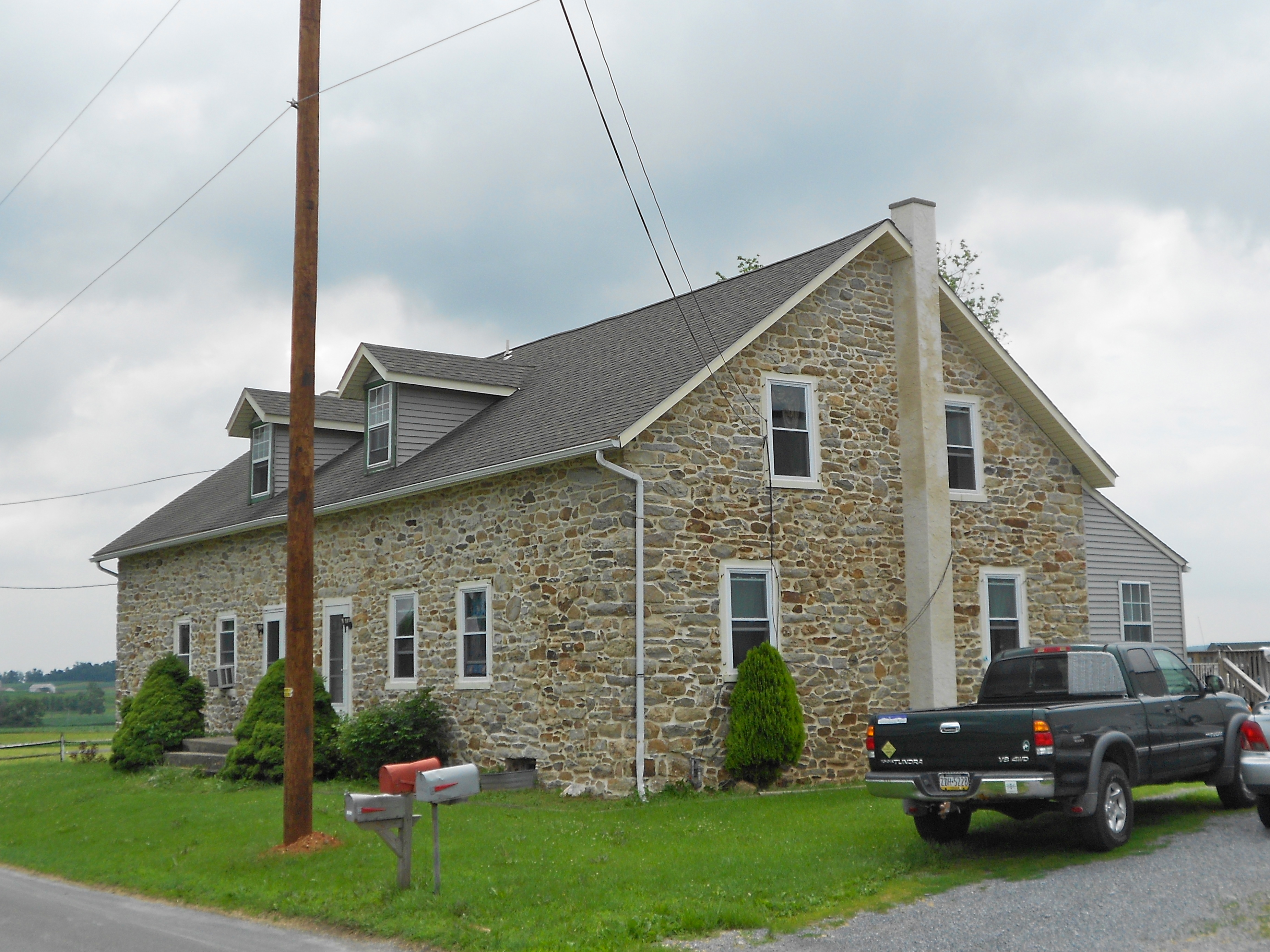 House in the village of Nickel Mines, Lancaster, Pennsylvania